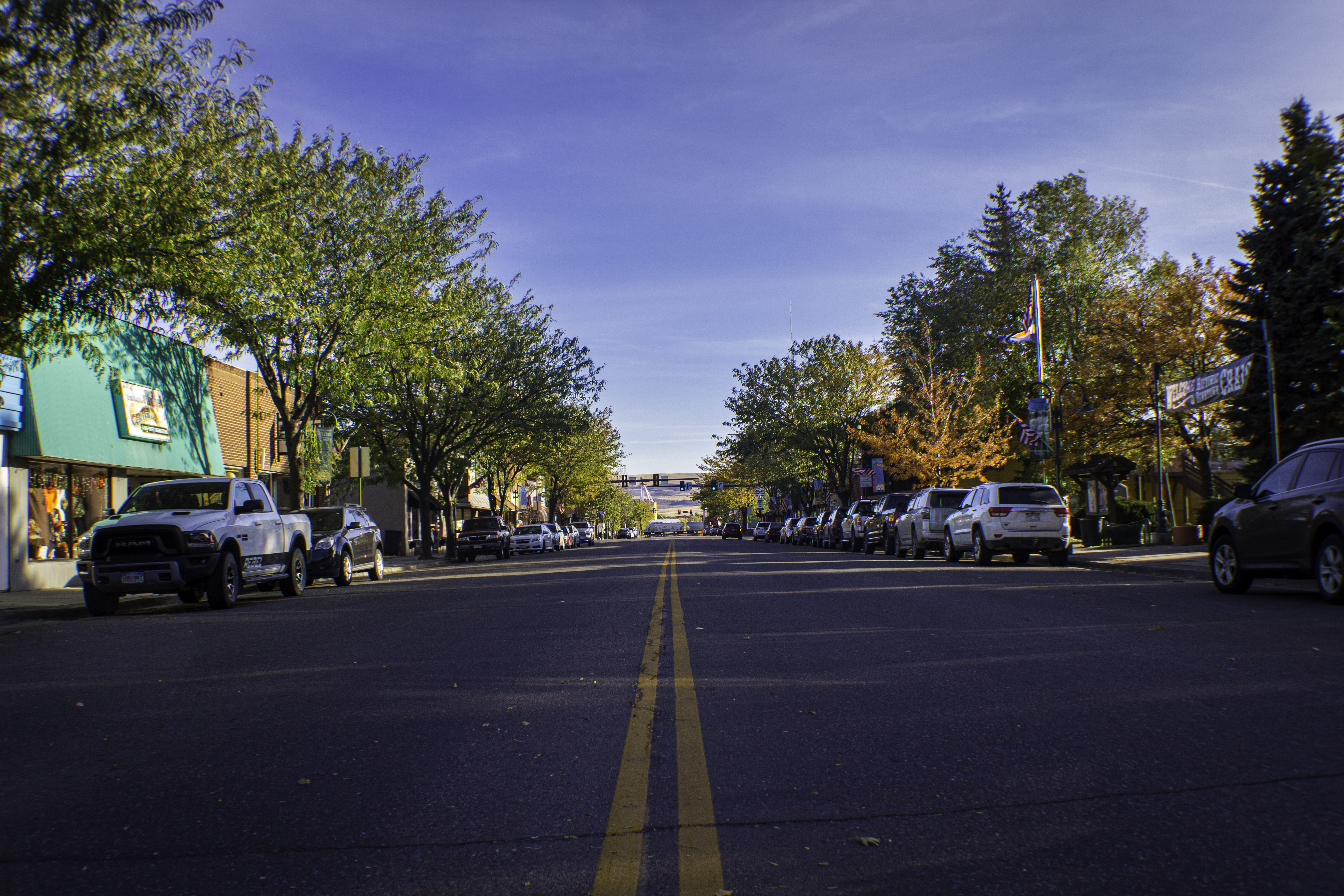 This photo was taken by Randie Craft in the fall of 2019 on Yampa Ave, in Craig Colorado.